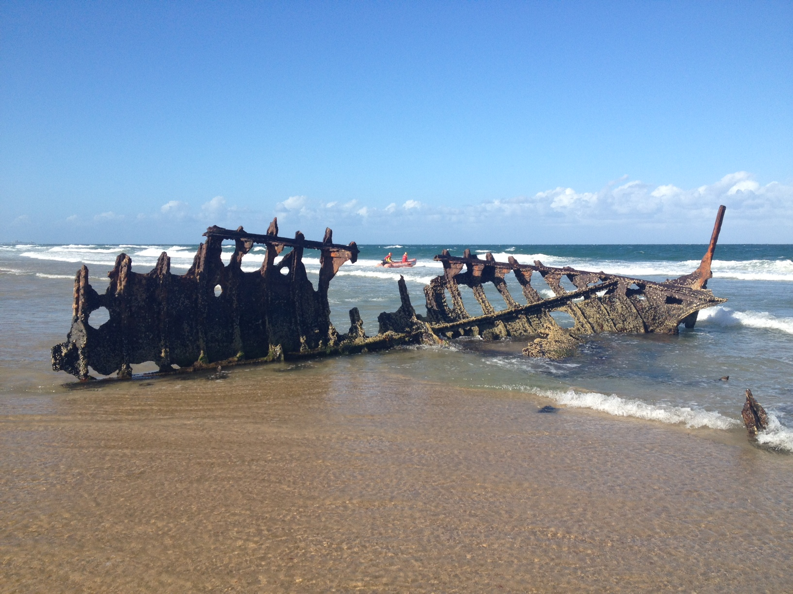 Wreck of the SS Dicky on Dicky Beach, Caloundra, Queensland, December 2012